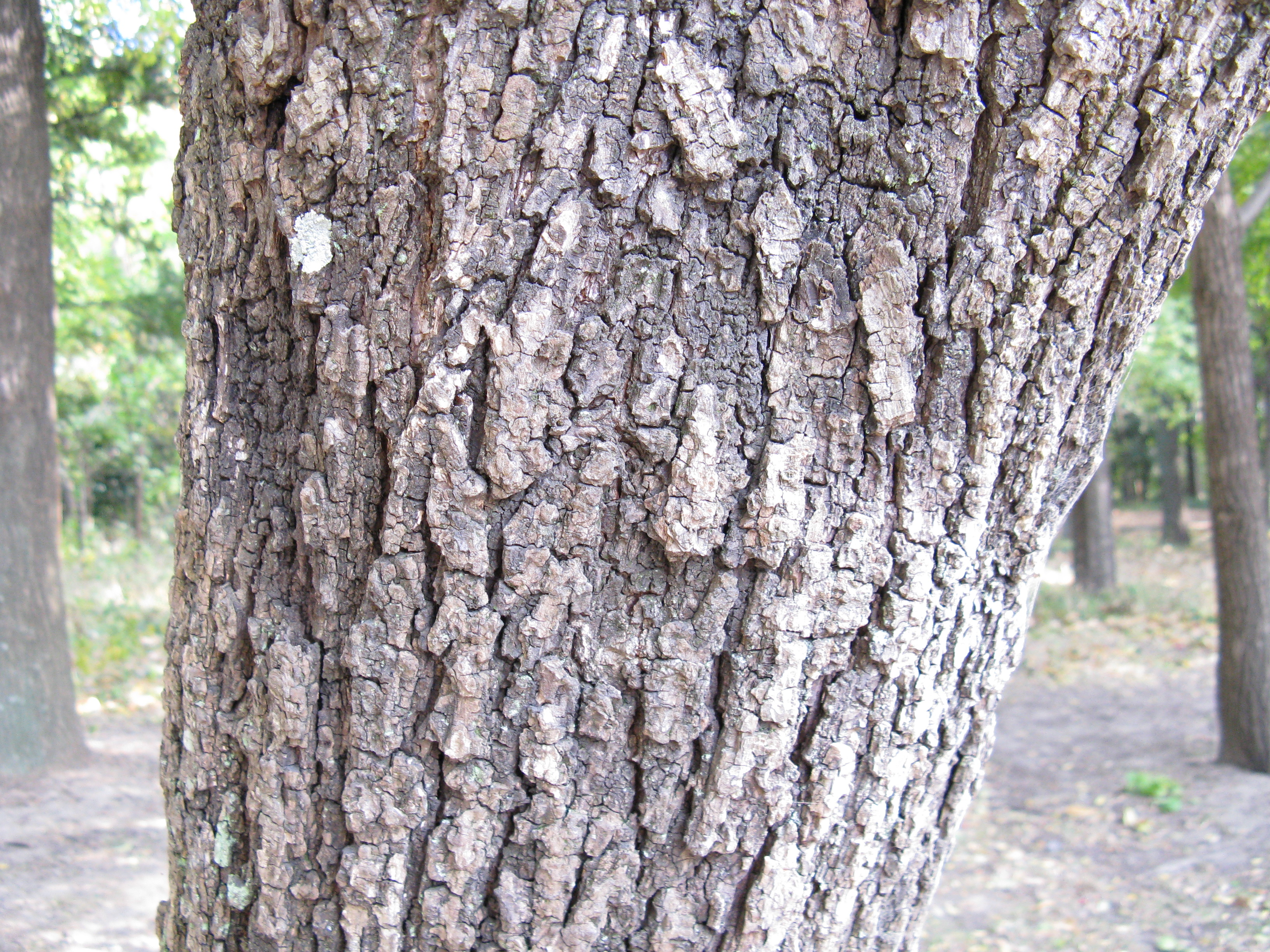 Platycarya strobilacea